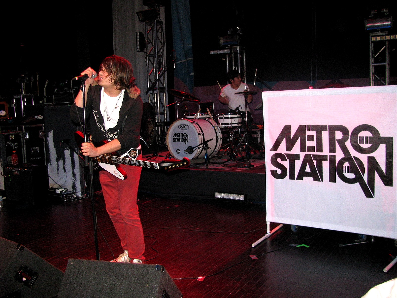 Metro Station, live at The Fillmore in Detroit on November 21, 2007.